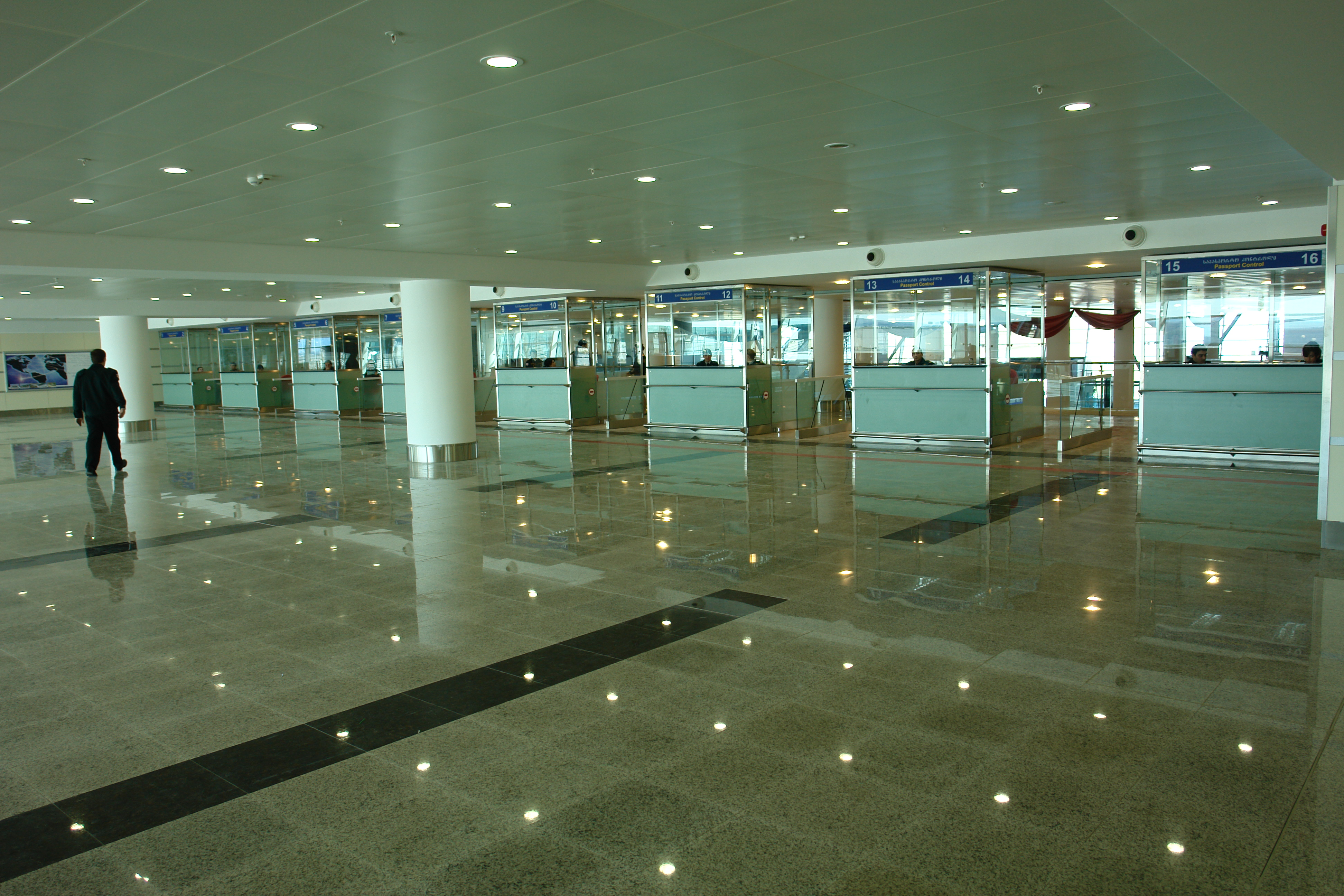 Arrivals Pasport Control Desks